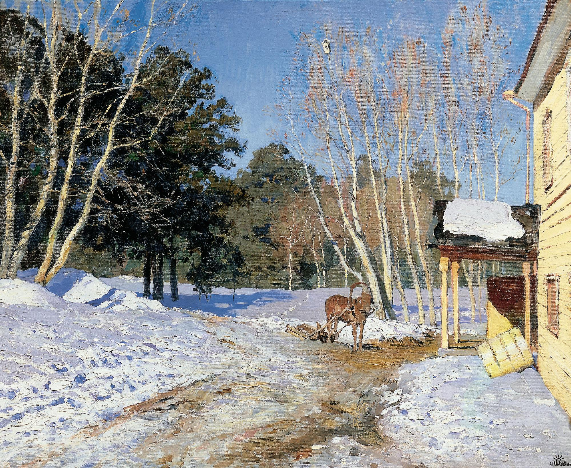 Isaak Levitan - March Flickr data on 2011-08-13 Tags: Isaak, Levitan, March, Public Domain License: CC BY-SA 2.0 User: paukrus Ruslan